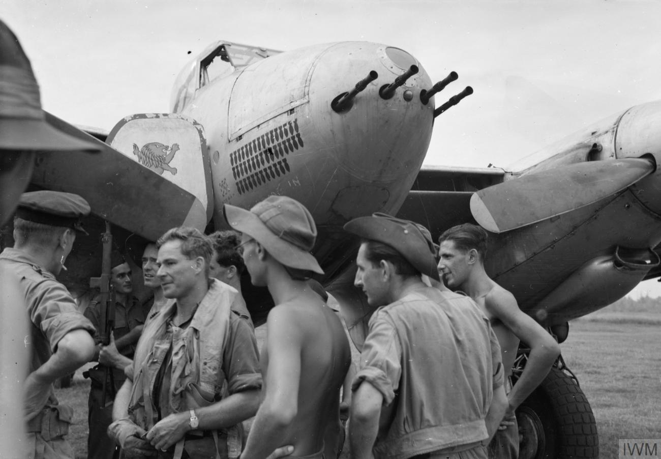 IWM caption : "At Batavia/Kemajoran airfield Flight Lieutenant A Jacomb-Hood DFC of 47 Squadron tells his ground crew of his attack on the radio stations at Soerakarta in Java that were held by Indonesian nationalist forces". Comment : a de Havilland Mosquito Fighter-bomber is in the background.